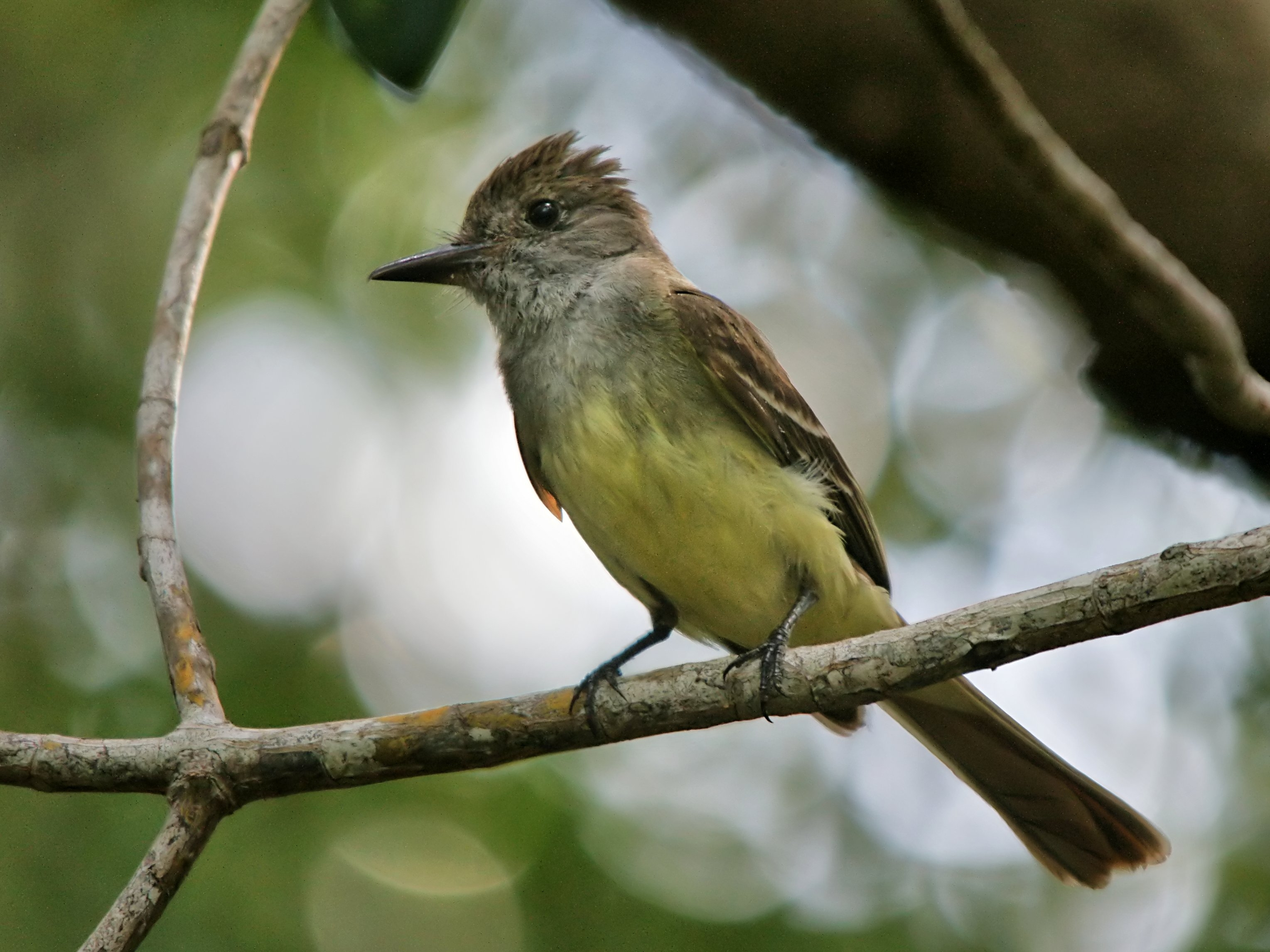 Great Crested Flycatcher at West Lake in the Everglades National Park in Miami-Dade County, Florida, U.S.A.